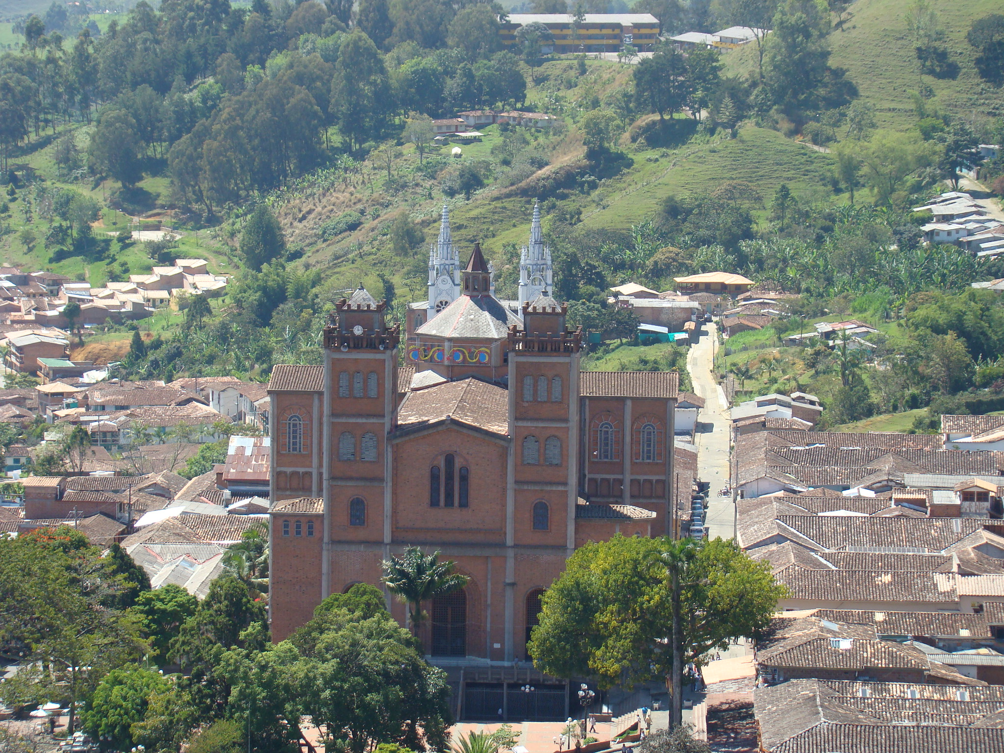 Cathedral of Jericó (Colombia) Cfr.